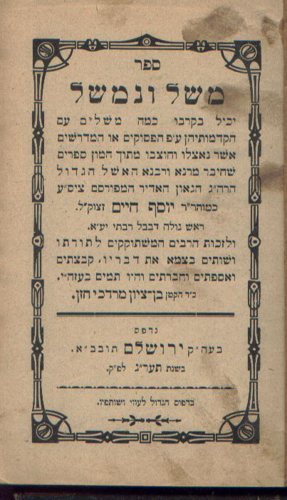 1st ed. of the book Mashal Venimshal by the Ben Ish Hai. Jerusalem 1913